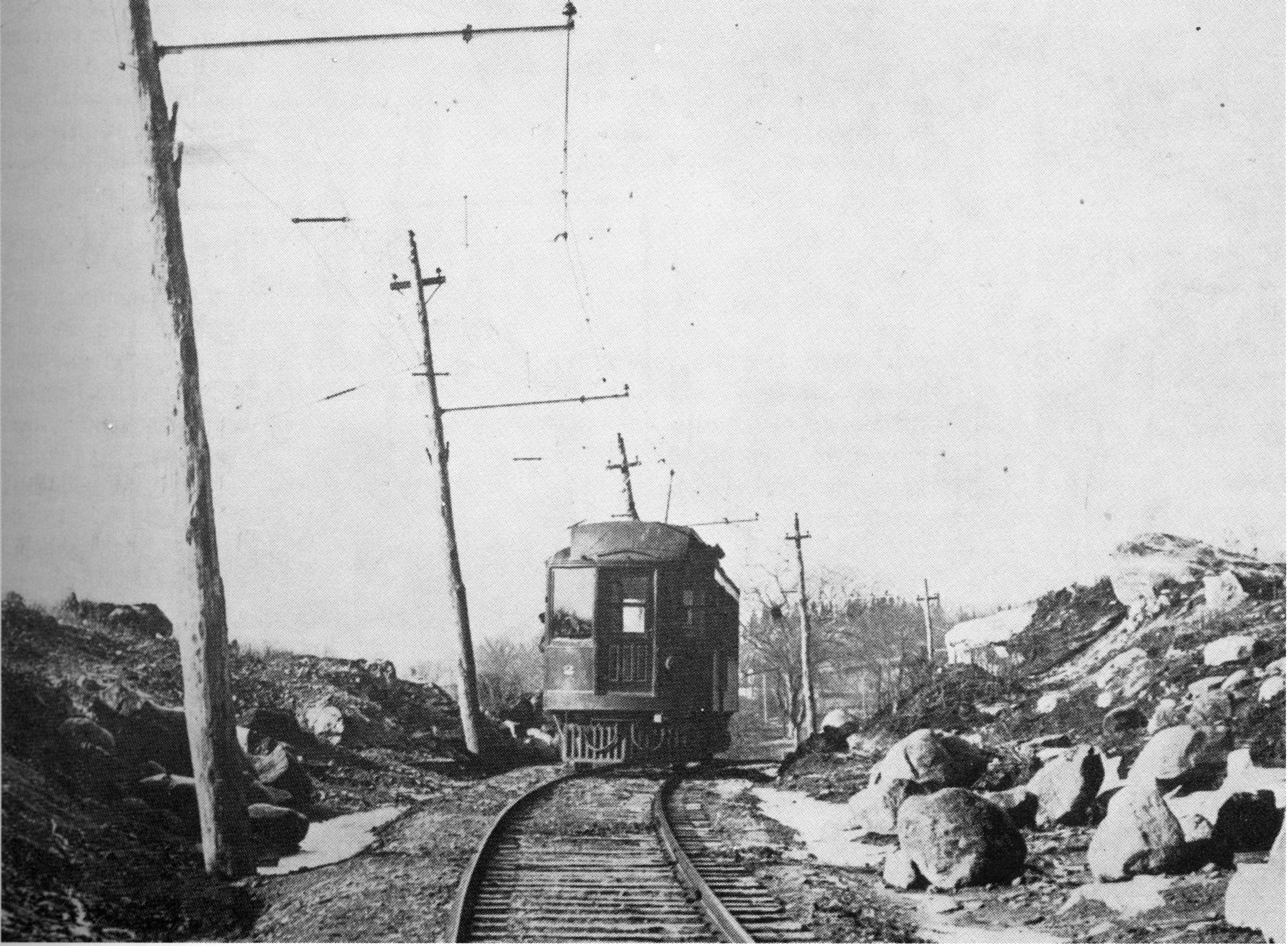 A Shore Line Electric Railway (SLERy) trolley at Madison in 1911. Route 1 was later built along this section of the trolley right-of-way; this curve is just east of the intersection with Signal Hill Road and Liberty Street (the original Post Road route).